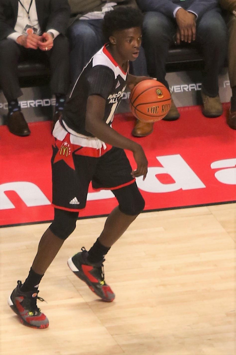 Andrew Jones at the w:2016 McDonald's All-American Boys Game